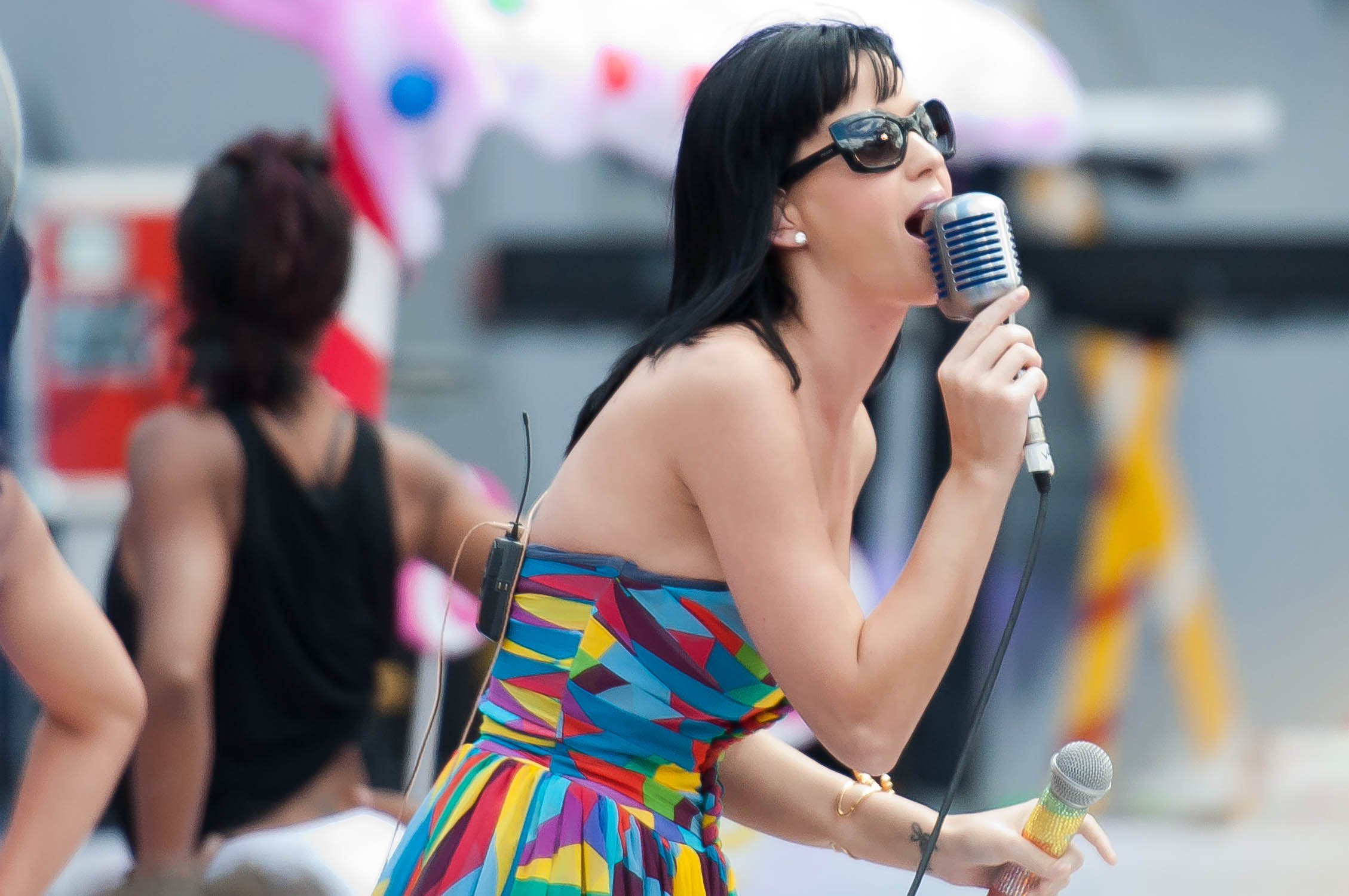 Katy Perry rehearsing her first single "California Gurls" (Teenage Dream's single) on June 20, 2010 on MuchMusic Video Awards in Toronto, Canada.